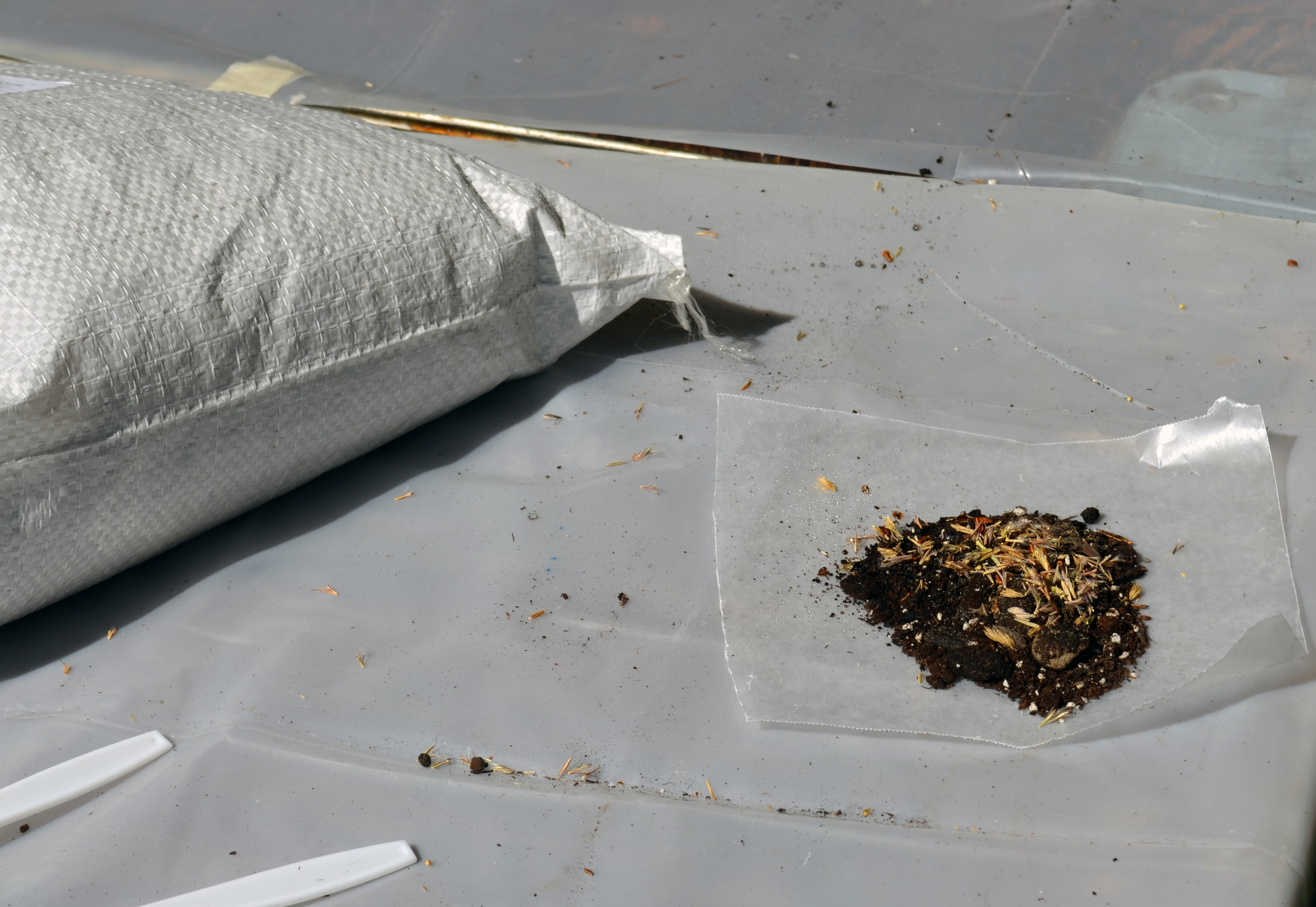 Native seed balls are made to encourage monarch habitat throughout a community. Photo by Mara Koenig/USFWS